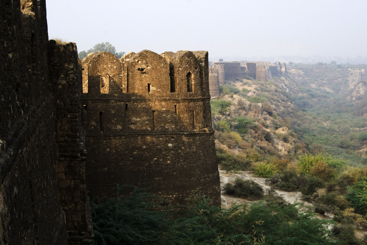 Rohtas Fort This is a photo of a monument in Pakistan identified as the PB-30